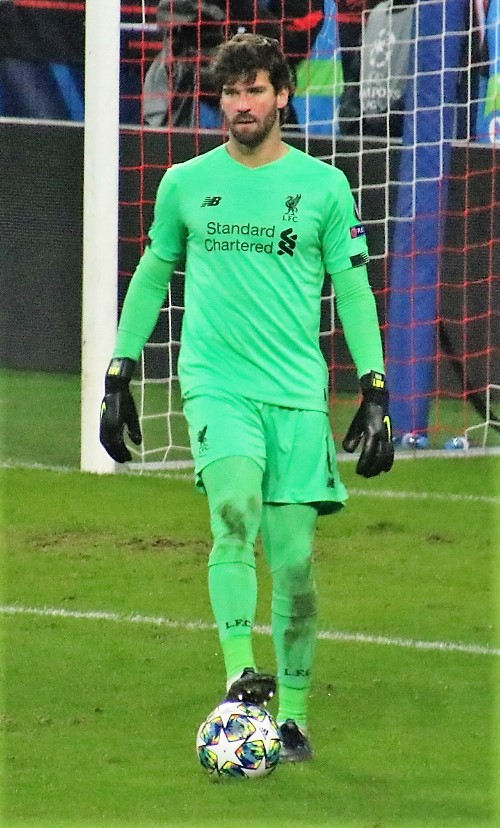 UEFA Champions League 6th round Group stage